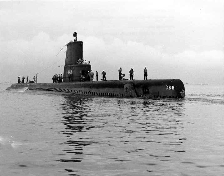 USS_Jallao; Jallao (SS-368), after Guppy IIA conversion underway, mid 1950's, location unknown. Transferred to the Spanish Navy in 1975 and renamed S-35 Narciso Monturiol (not to be confused with S-33 Narciso Monturiol) USN photo courtesy of .